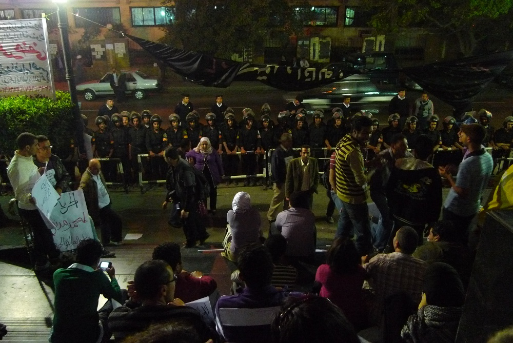 Around two dozen protesters demonstrating against the arrest of Egyptian journalist Yousef Shaaban four days before the country's election for the lower house of parliament are nearly outnumbered by police as they assemble on the steps of Cairo's journalist's syndicate. [Evan Hill]